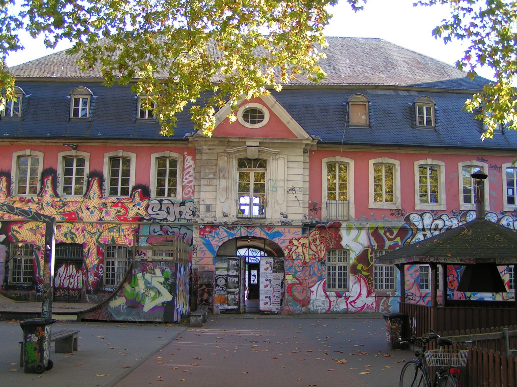 Exzellenzhaus, Trier, Germany